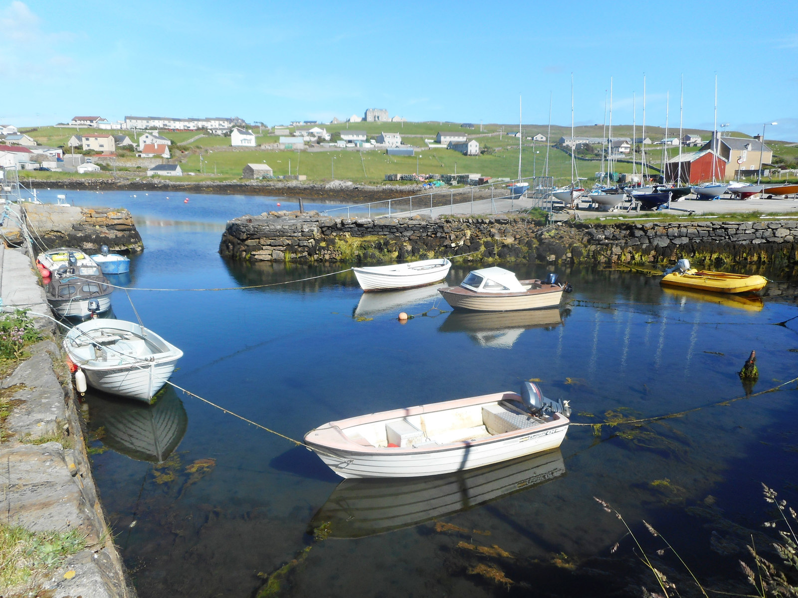 Small Boat Harbour, Symbister